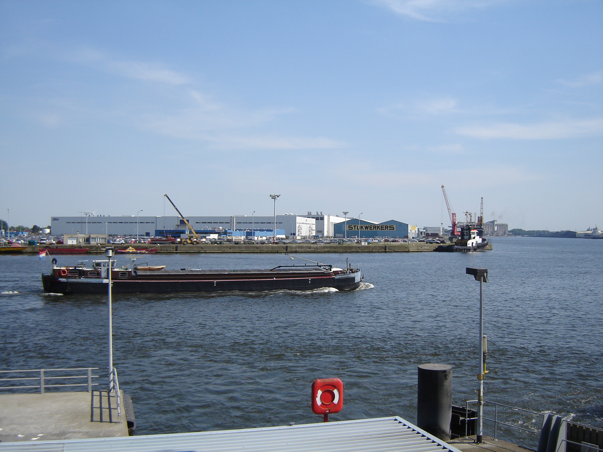 Riverboat on the Canal Gent-Terneuzen. View from Langerbrugge towards the east (buildings Stukwerkers, DSV). At the right, the Alphonse Sifferdok dock. Gent, East Flanders, Belgium